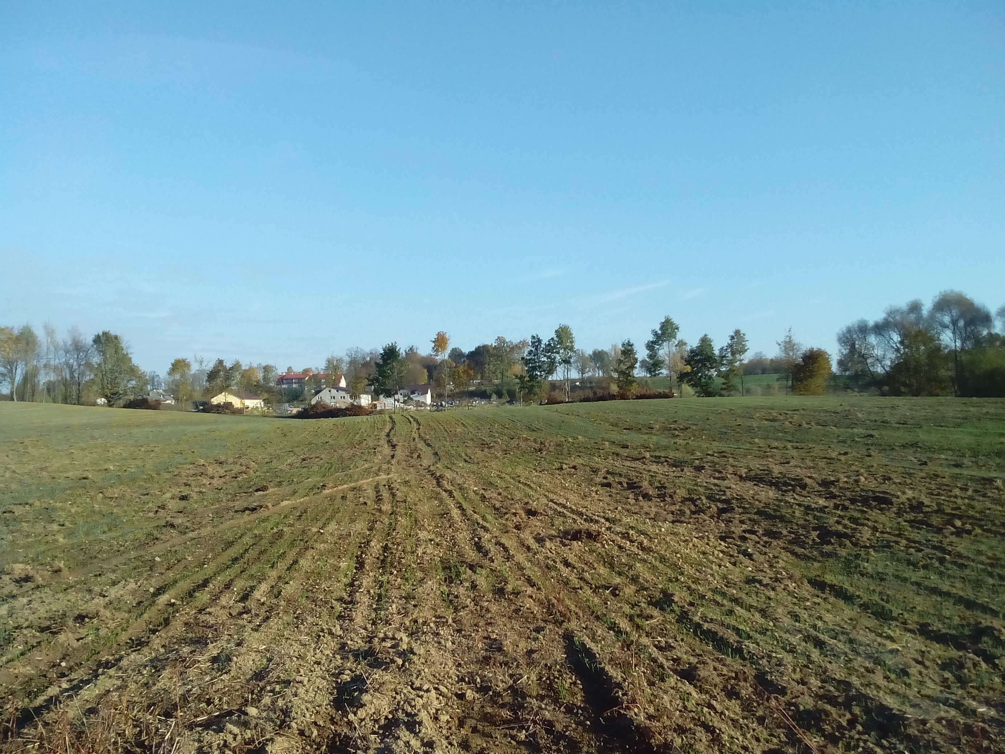 Pfarrersfeldchen (present Plebania Wólka) 2014